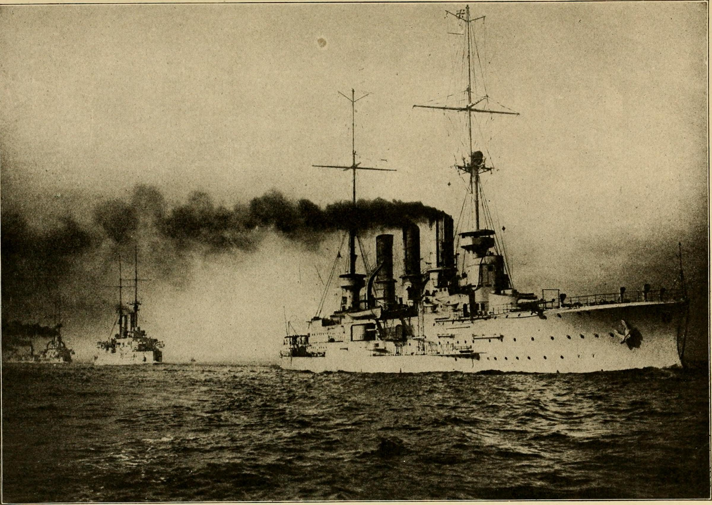 A line of German World War I warships. The lead ship is a Prinz Adalbert-class armored cruiser, either SMS Prinz Adalbert or SMS Friedrich Carl Title: The people's war book; history, cyclopaedia and chronology of the great world war Year: 1919 (1910s) Authors: Miller, J. Martin (James Martin), b. 1859 Canfield, Harry S. (from old catalog), joint author Plewman, William Rothwell, 1880- (from old catalog) Foch, Ferdinand, 1851-1929 Lloyd George, David, 1863-1945 United States. President (1913-1921 : Wilson) Subjects: World War, 1914-1918 World War, 1914-1918 Publisher: Cleveland, O., The R.C. Barnum co. Detroit, Mich., The F.B. Dickerson co. (etc., etc.) Text Appearing Before Image: WAR CHRONOLOGY 441 Text Appearing After Image: 442 THE PEOPLES WAE BOOK Dec. 6—Germans captured Ipek (Montenegro). Dec. 10—Boy-Ed and von Papen recalled. Dec. 13—British defeat Arabs on western frontier ofEgypt. Dec. 15—Sir John French retired from commandof the army in France and Flanders, and is suc-ceeded by Sir Douglas Haig. Dec. 17—Russians occupied Hamadan (Persia). Dec. 10—The British forces withdrawn from Anzacand Sulva Bay (Gallipoli Peninsula). Dec. 26—Russian forces in Persia occupied Kashan. Dec. 30—British passenger steamer Persia sunk inMediterranean, presumably by submarine. 1916 Jan. 8—Complete evacuation of Gallipoli. Jan. 13—Fall of Cettinje, capital of Montenegro. Jan 18—United States Government sets forth a dec-laration of principles regarding submarine attacksand asks whether the Government of the allieswould subscribe to such an agreement. Jan. 28—Austrians occupy San Giovanni de Medici(Albania). Feb. 10 Germany sends memorandum to neutralpowers that armed merchant ships will be treate